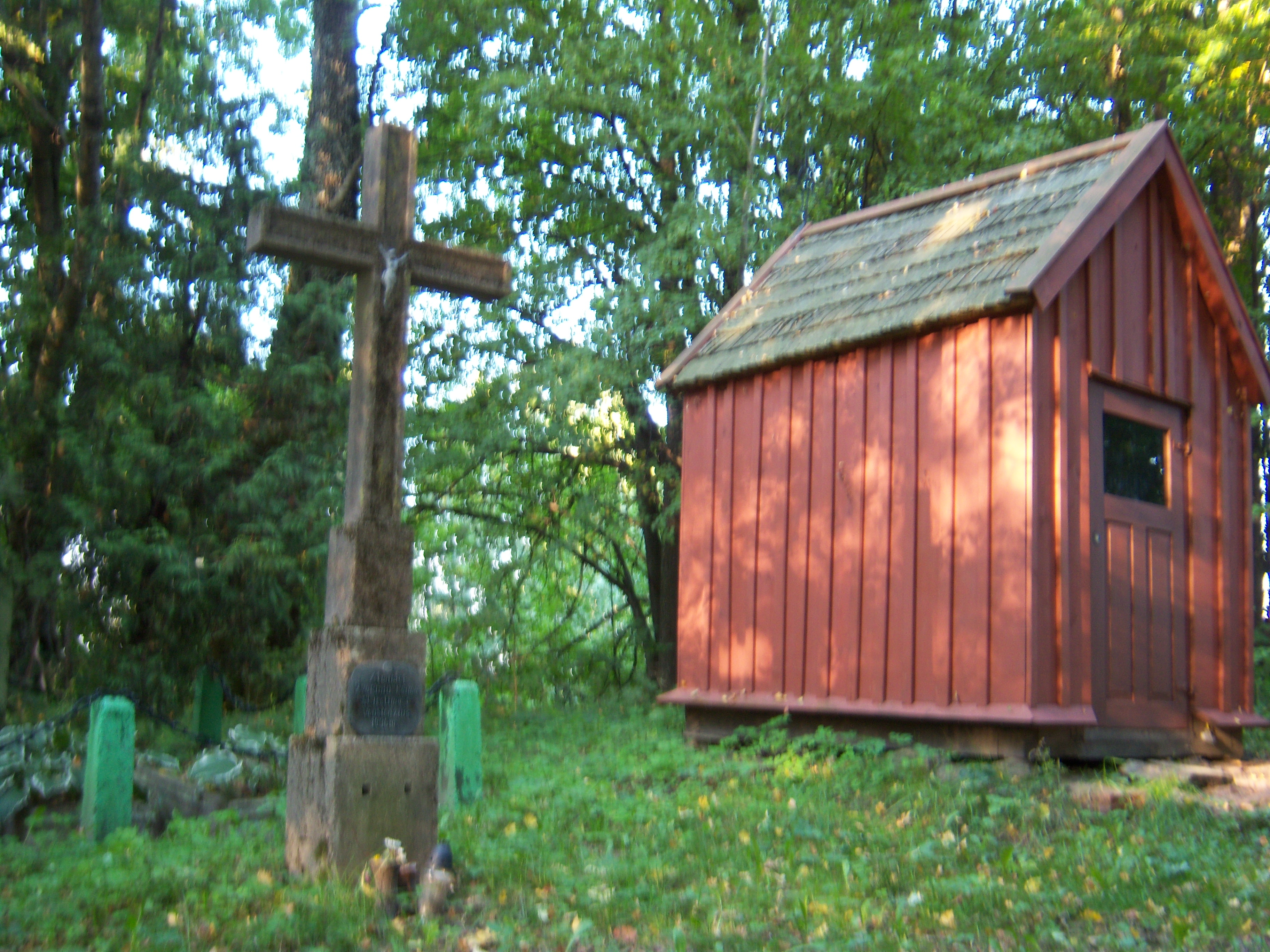 Little chapel on Žvaginiai hillfort, Ablinga, Klaipėda District. Lithuania